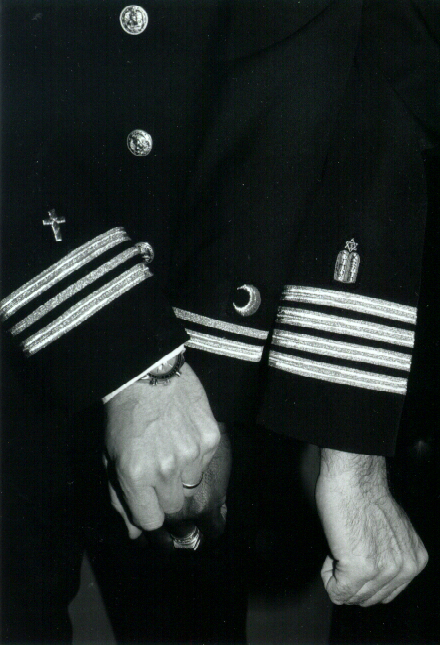 During training of Muslim chaplain candidate Shai Noel at U.S. Navy Submarine Base, Groton, Connecticut, Navy Chaplain (Rabbi) Arnold E. Resnicoff had this photo taken of the two of them, plus a third (unidentified) Christian chaplain. The photo shows the three chaplain insignias in use at that time: Christian, Muslim, and Jewish. License on Flickr (2010-12-28): CC-BY-SA-2.0